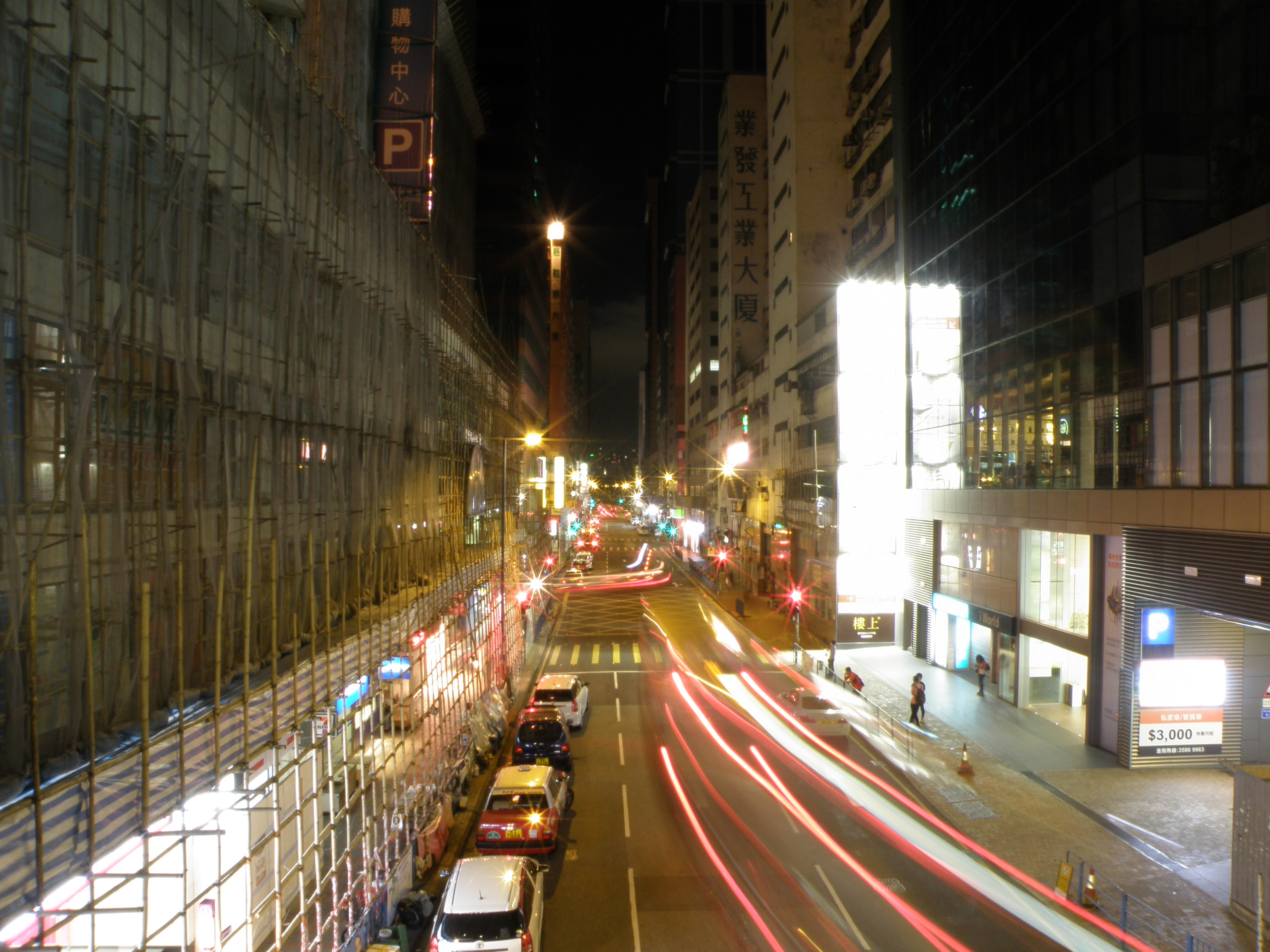 Hoi Yuen Road in Kwun Tong, Hong Kong.